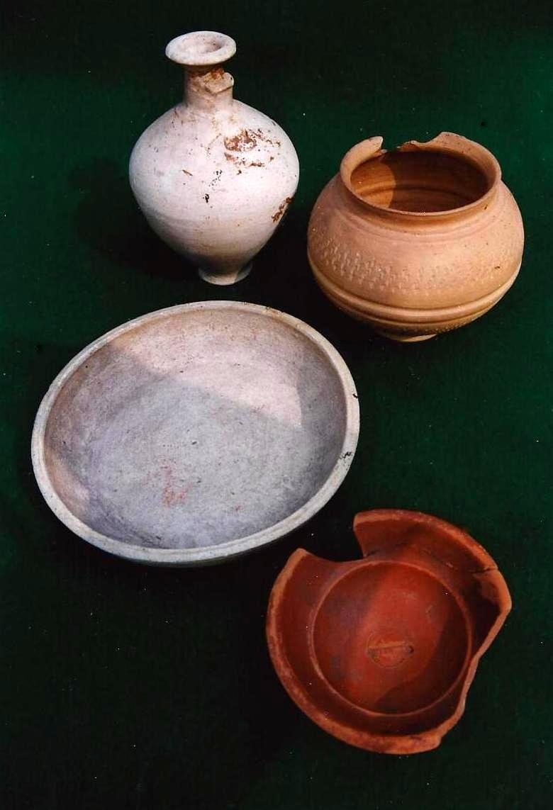 Ancient Roman pottery found in Lieshout, the Netherlands in 1918: fine pottery jar, terra rubra beaker, coarse plate and terra sigillata dish, collection Rijksmuseum van Oudheden, Leiden, the Netherlands.